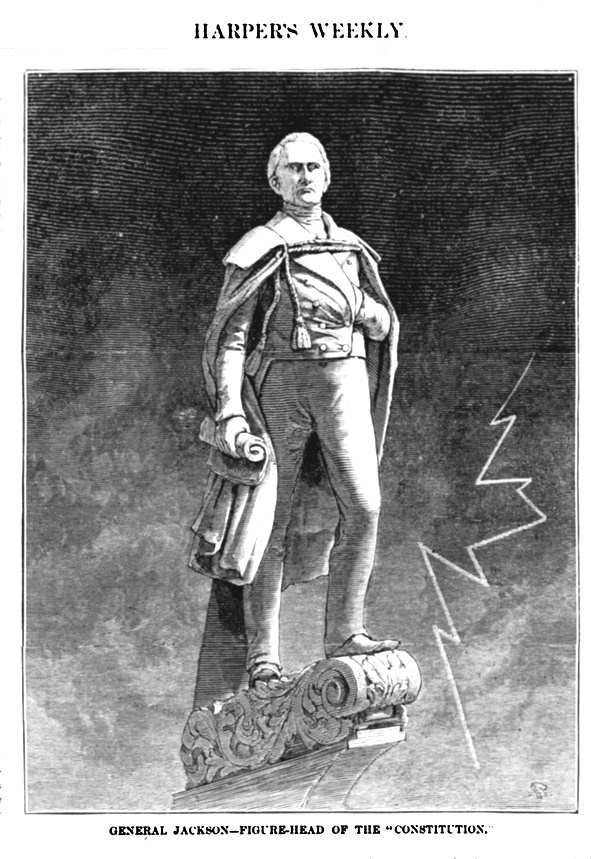 News media representation of the figurehead of Andrew Jackson as installed on the USS Constitution